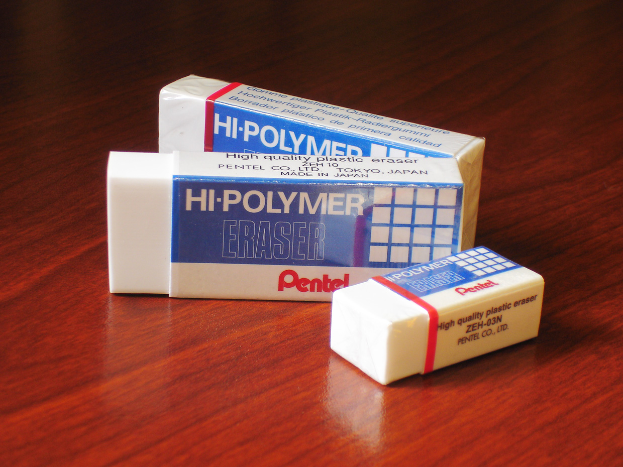 Pentel Eraser 3pcs